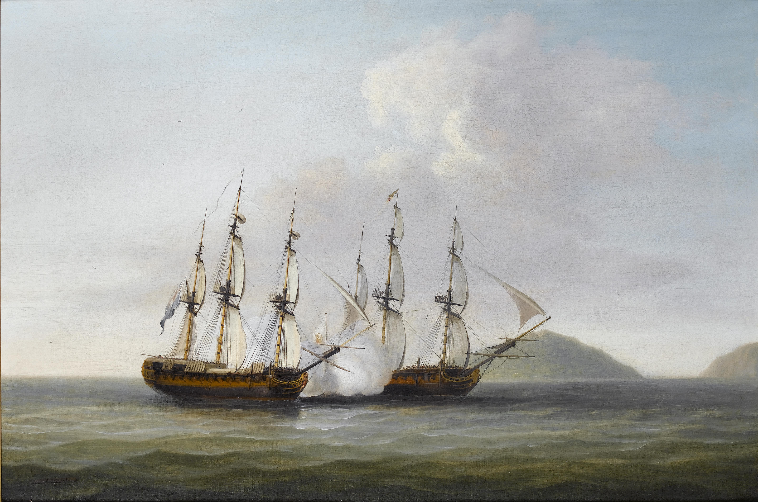 Captain George Montagu of the 'Pearl', 32 guns, engaging the Spanish frigate 'Santa Monica' off the Azores, 14th. September 1779